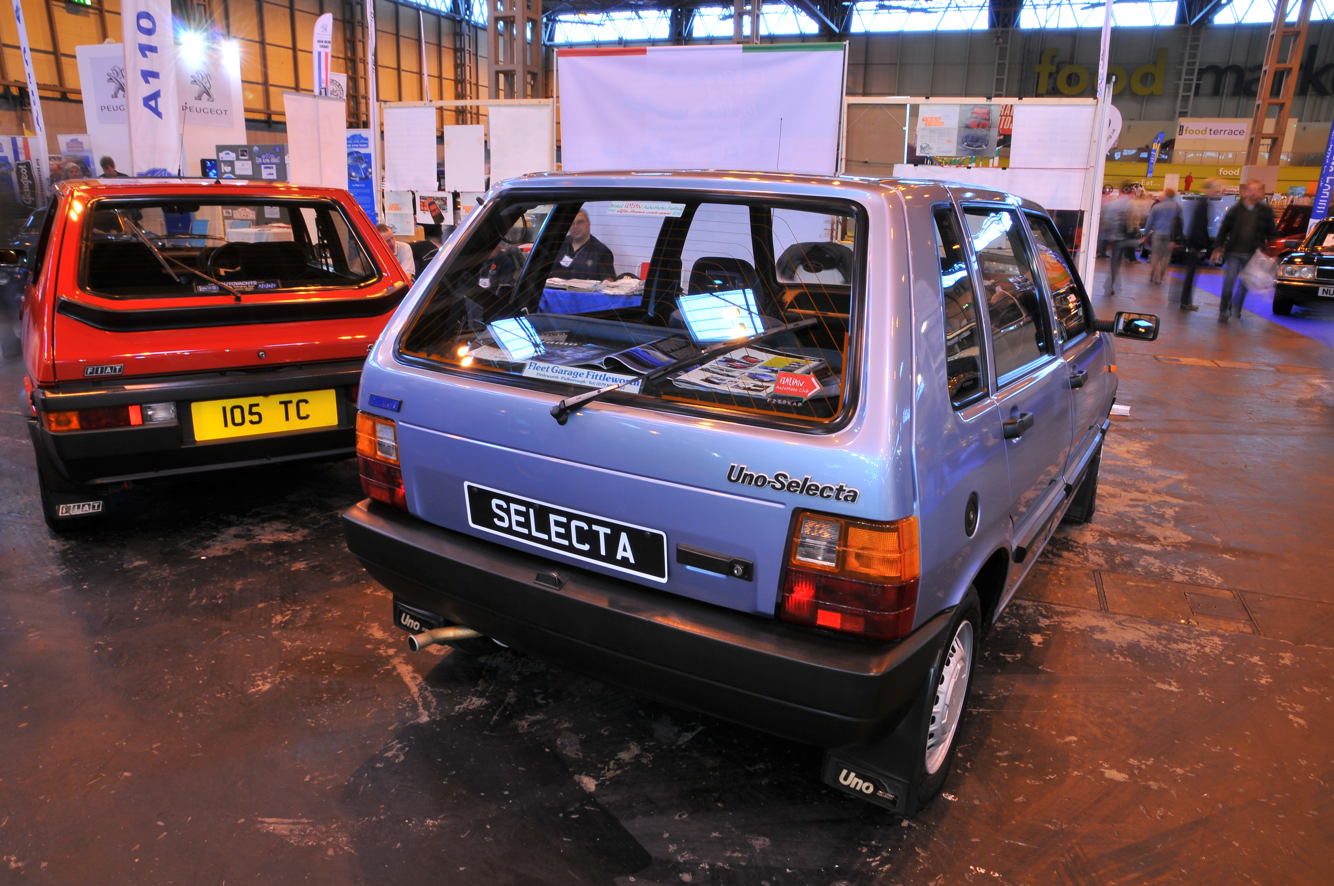 2011 NEC Classic Car Show